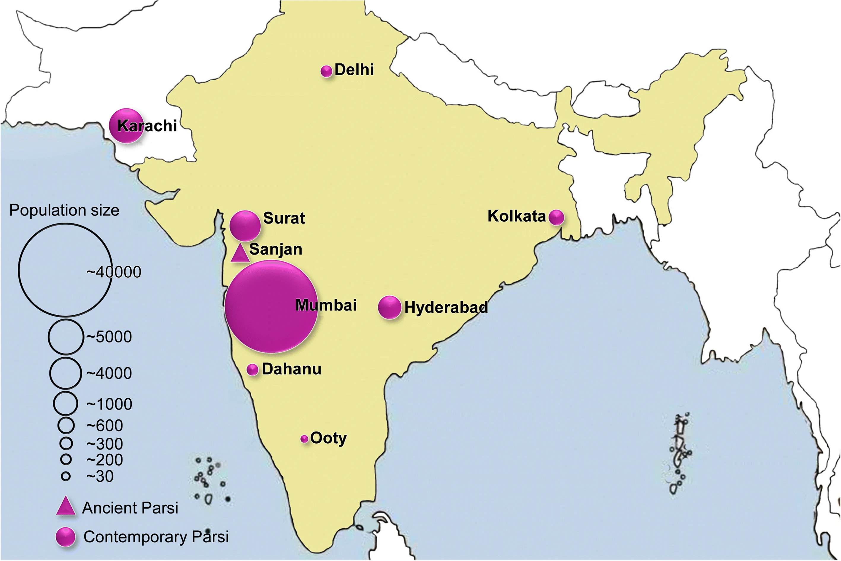 The geographical distribution of modern and ancient Parsis. The population data are obtained from the Parzor Foundation, New Delhi, India. ( The Parzor Foundation reports the total number of Zoroastrians to be around 137,000, with 69,000 living in India, roughly 20,000 in Iran and 2000–5000 in Pakistan.